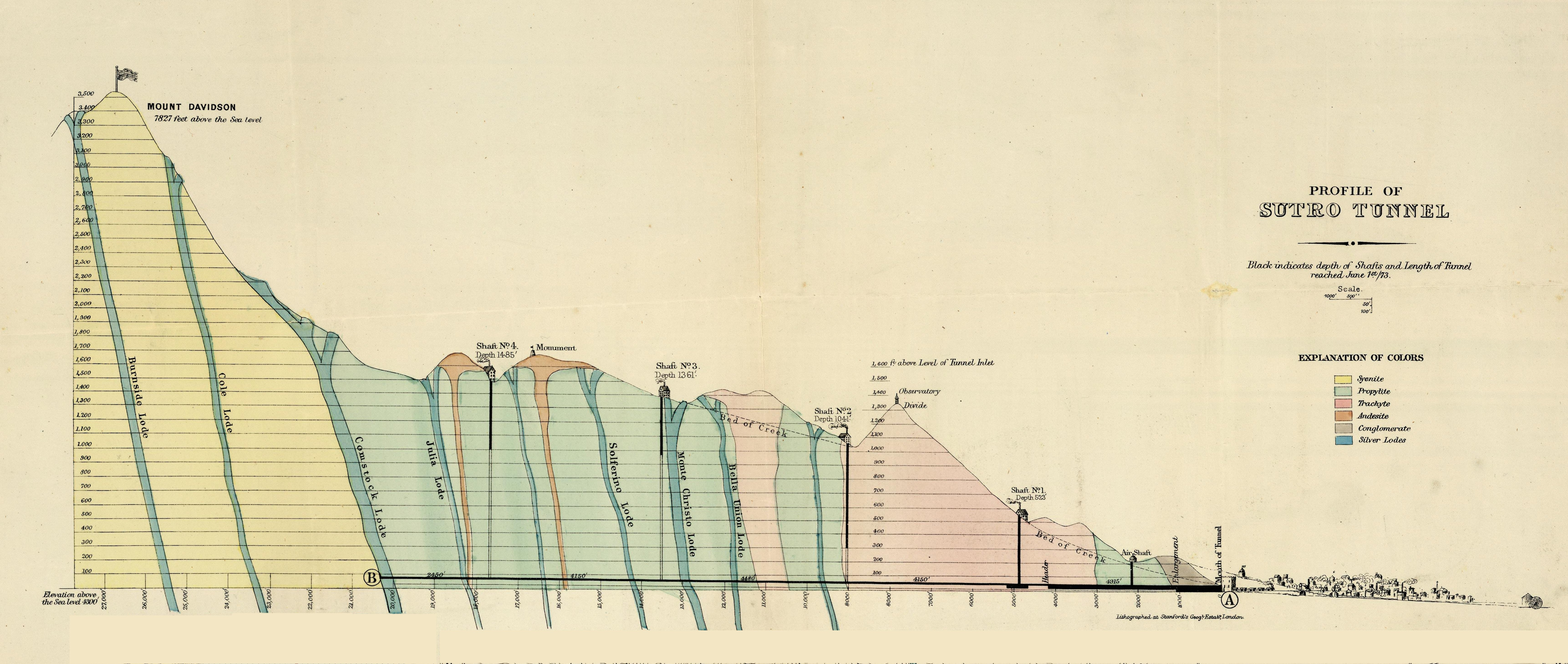 Author Stanford's Geographical Establishment Date 1873 Short Title Sutro Tunnel And The Comstock Lode State Of Nevada Publisher Stanford's Geographical Establishment Publisher Location London Type Separate Map Obj Height cm 57 Obj Width cm 55 Scale 1 33,240 Note Color map measuring 42x32.5, with two profiles on one sheet. Relief shown by contour lines. State/Province Nevada County Storey County Lyon Region Comstock Lode Region Sutro Tunnel Subject Mining Full Title Topographical Map Showing the Locations of the Sutro Tunnel And The Comstock Lode State Of Nevada, United States Of America. Reduced and Compiled from U. States Govt. Surveys &c. at Stanford's Geographical Estabt. London, June, 1873. (with) Profile Of Sutro Tunnel ... Lithographed at Stanford's Geogl. Estabt., London. (with) Longitudinal Section Of The Comstock Lode, Shewing The Workings And Their Relative Depths, To The Sutro Tunnel. List No 5303.001 Series No 1 Publication Author Stanford's Geographical Establishment Pub Date 1873 Pub Title Topographical Map Showing the Locations of the Sutro Tunnel And The Comstock Lode State Of Nevada, United States Of America. Reduced and Compiled from U. States Govt. Surveys &c. at Stanford's Geographical Estabt. London, June, 1873. (with) Profile Of Sutro Tunnel ... Lithographed at Stanford's Geogl. Estabt., London. (with) Longitudinal Section Of The Comstock Lode, Shewing The Workings And Their Relative Depths, To The Sutro Tunnel. Pub Note One map measuring 42x32.5, with two profiles on one sheet. Pub List No 5303.000 Pub Type Separate Map Pub Height cm 57 Pub Width cm 55 Image No 5303001 Download 1 Full Image Download in MrSID Format Download 2 GeoViewer for JP2 and SID files Authors Stanford's Geographical Establishment